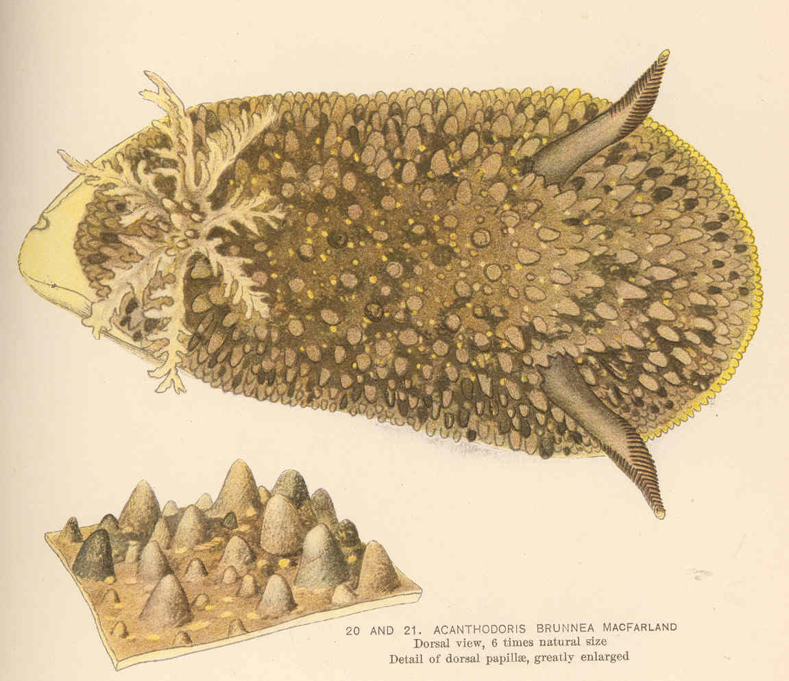 Acanthodoris brunea MacFarland. Dorsal view and detail of dorsal papillae, greatly enlarged.